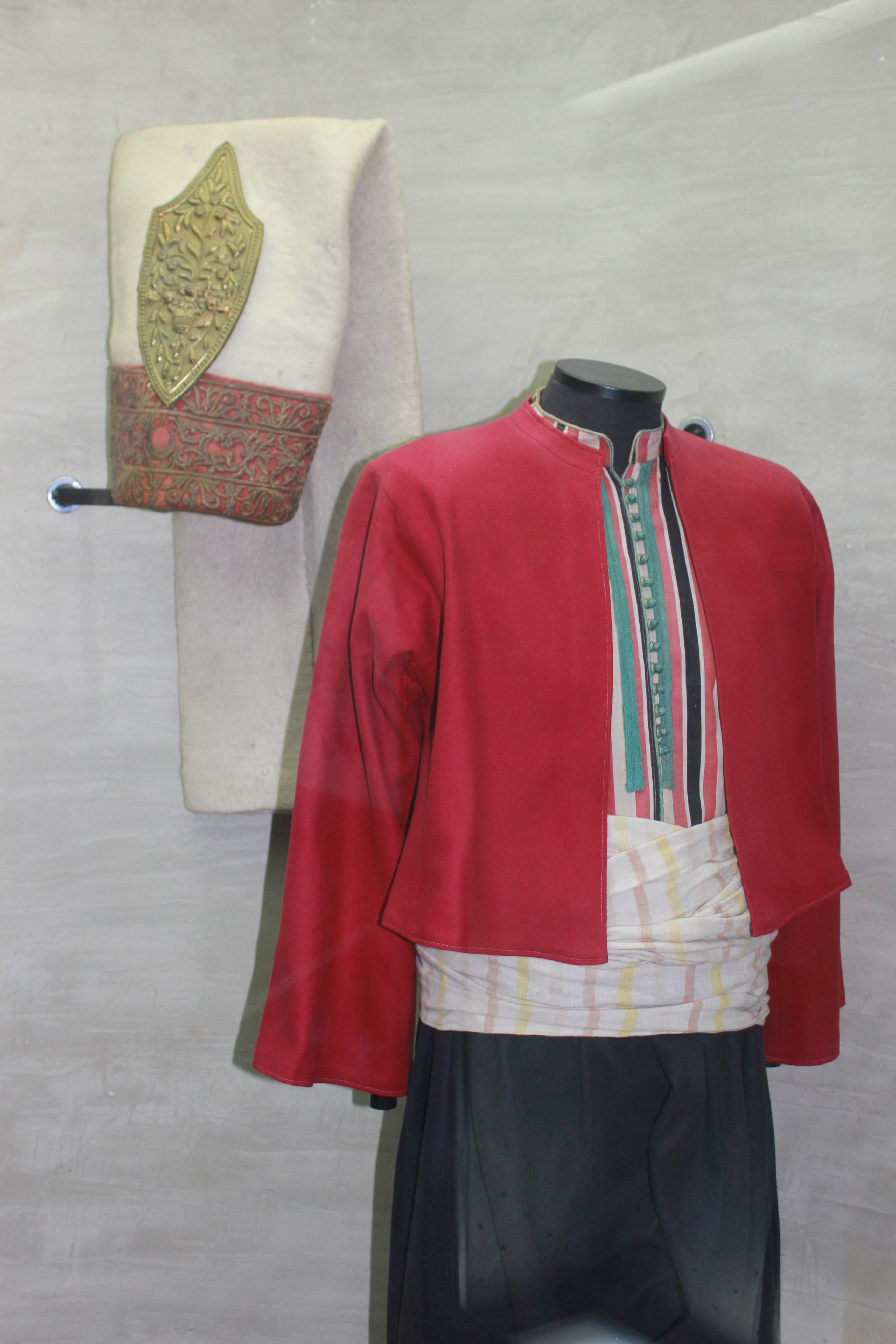 Jannisary uniform